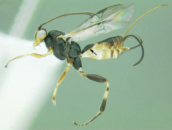 Camptothlipsis sp.